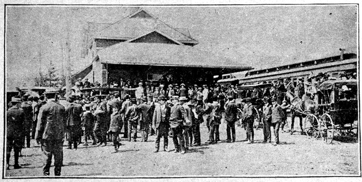 "Excursionists arriving at the Joliette train station". Published in L'album universel